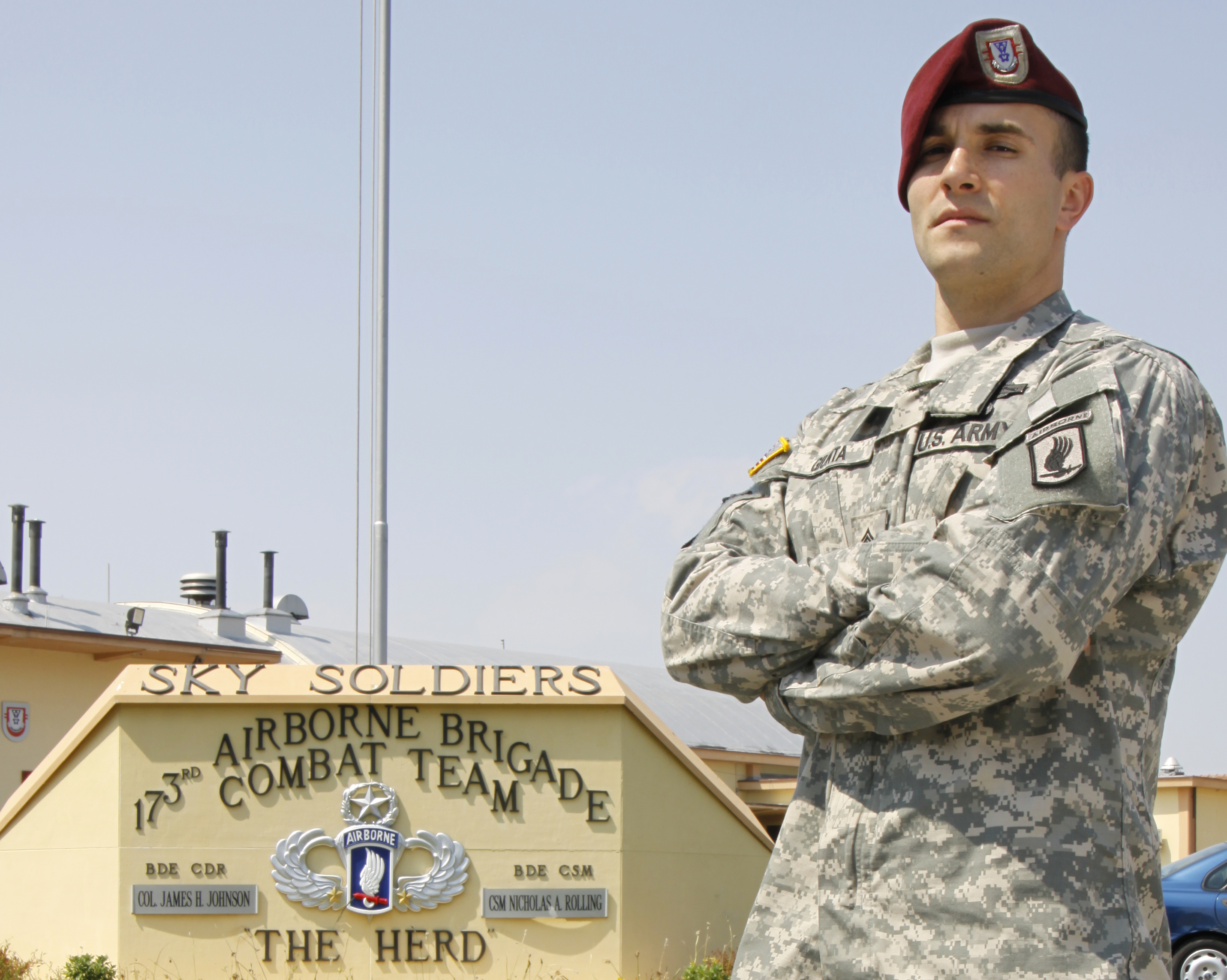 United States Army Staff Sergeant Salvatore Giunta, Medal of Honor recipient for his actions during the War in Afghanistan